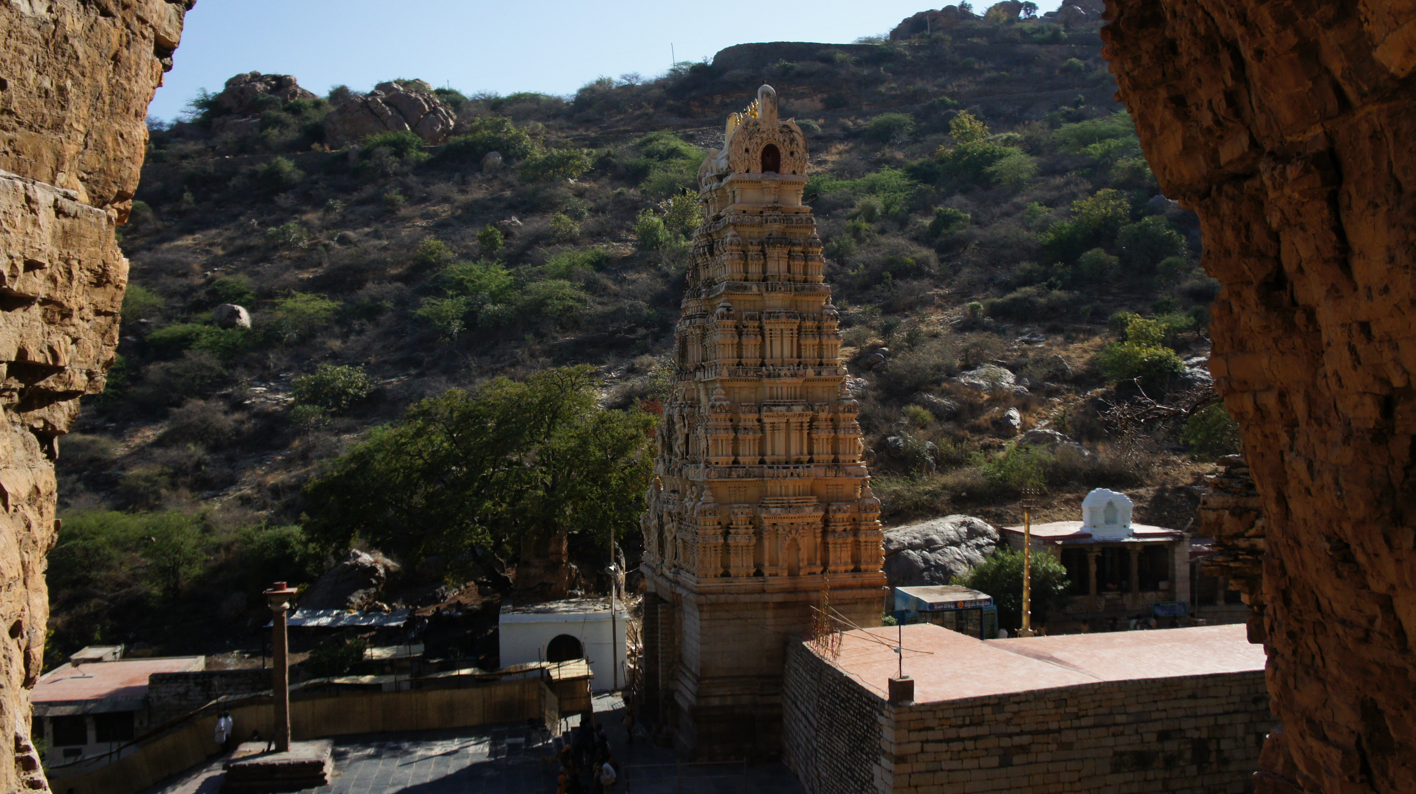 a view from a cave